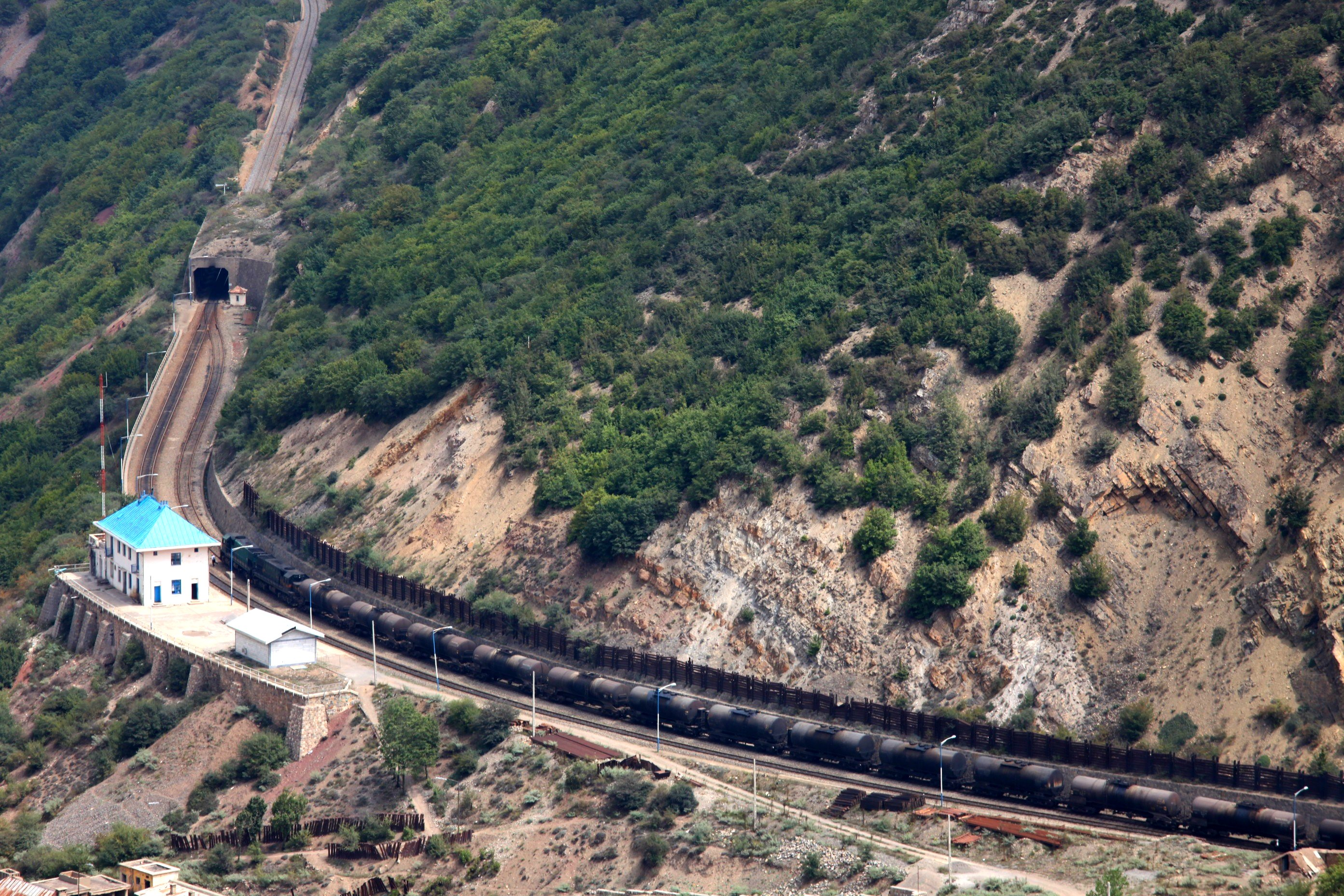 Tehran - Sari Railway Dowgal train station